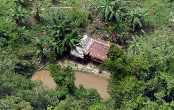 Cocaine laboratorie in Amazon forest in Brazil